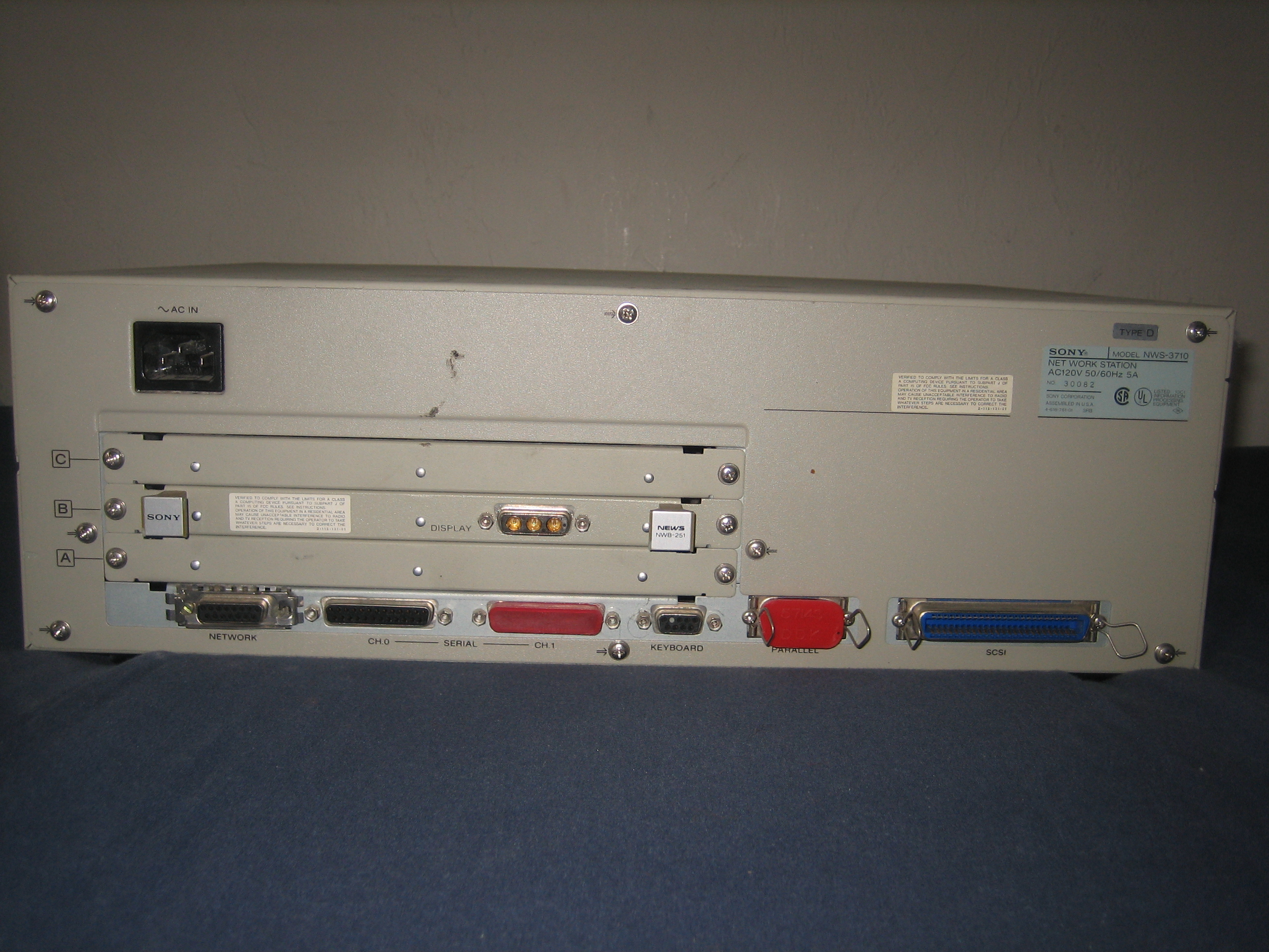 Rear view of a Sony NWS-3710 RISC workstation, showing the 3 expansion bays, one of which being used by a video card, and the different connectors (left to right: SCSI, network AUI), serial (CH0, normally used for console, and CH1), parallel, and keyboard. In this case, the video card (or framebuffer) is a Sony NEWS NWB-251.